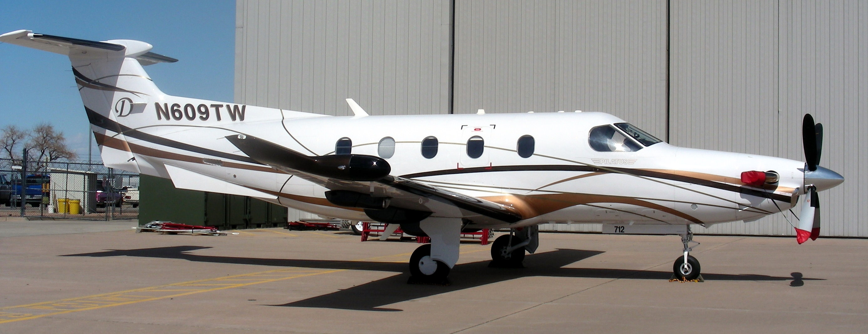 2006 Pilatus PC-12 at Centennial Airport.